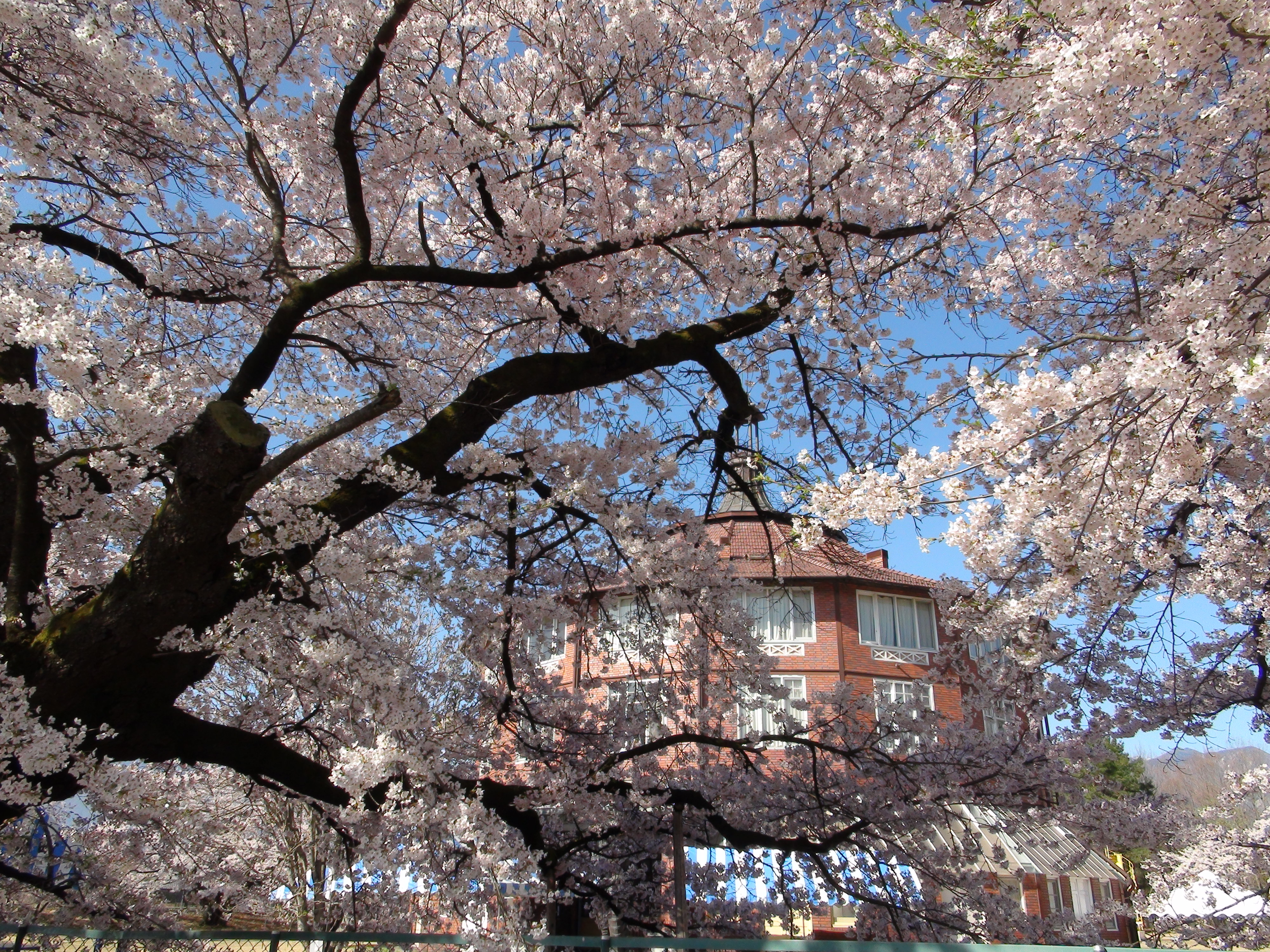 Musée Kiyoharu Shirakaba